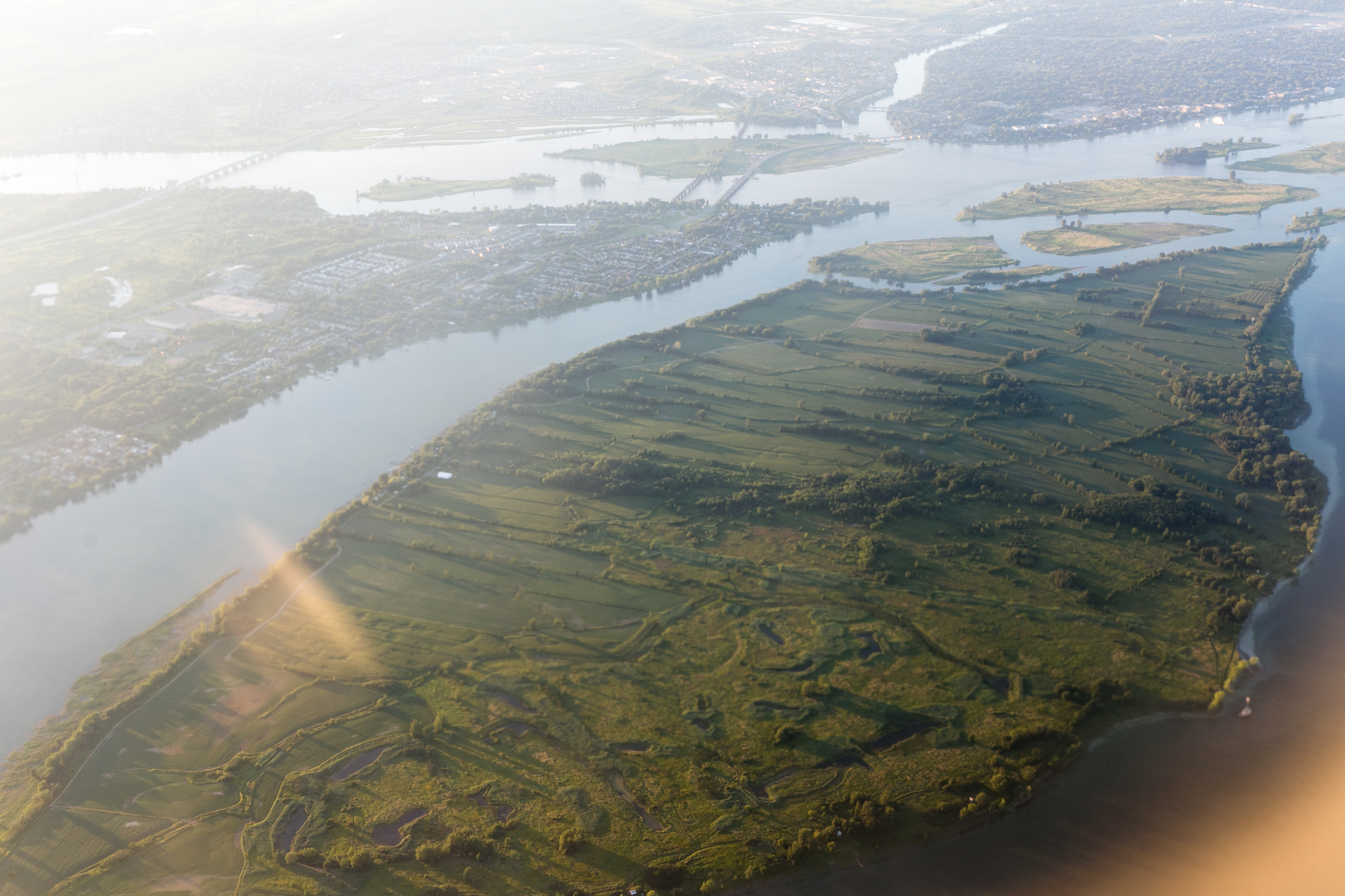 Aerial view of Île Sainte-Thérèse during a flight between CDG and YUL.